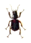 Masoreus wetterhallii, from Calwer's Käferbuch, Table 5, Picture 8. Taxonomy was updated to 2008, using mostly the sites Fauna Europaea and BioLib. Please contact Sarefo if the determination is wrong!